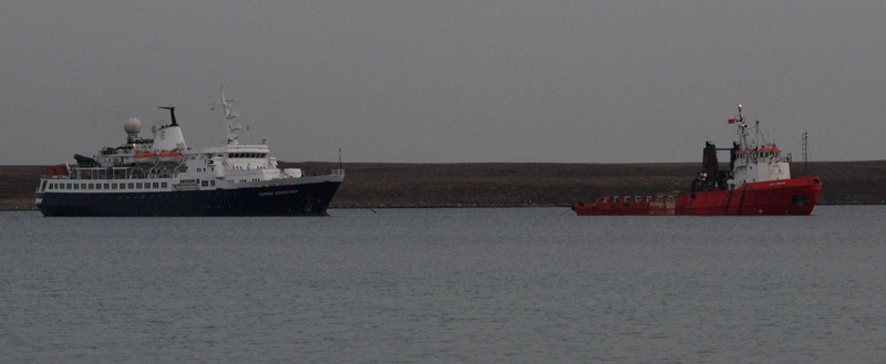 MV Clipper Adventurer being towed by MV Alex Gordon into Cambridge Bay, 18 September 2010.